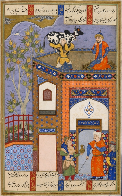 Fitna's feat of strength brought about by practice. From a manuscript of Nizami, Khamsa (Quintet), copied c 1570 Bodleian Library, University of Oxford, MS Ouseley 316, fol 199v